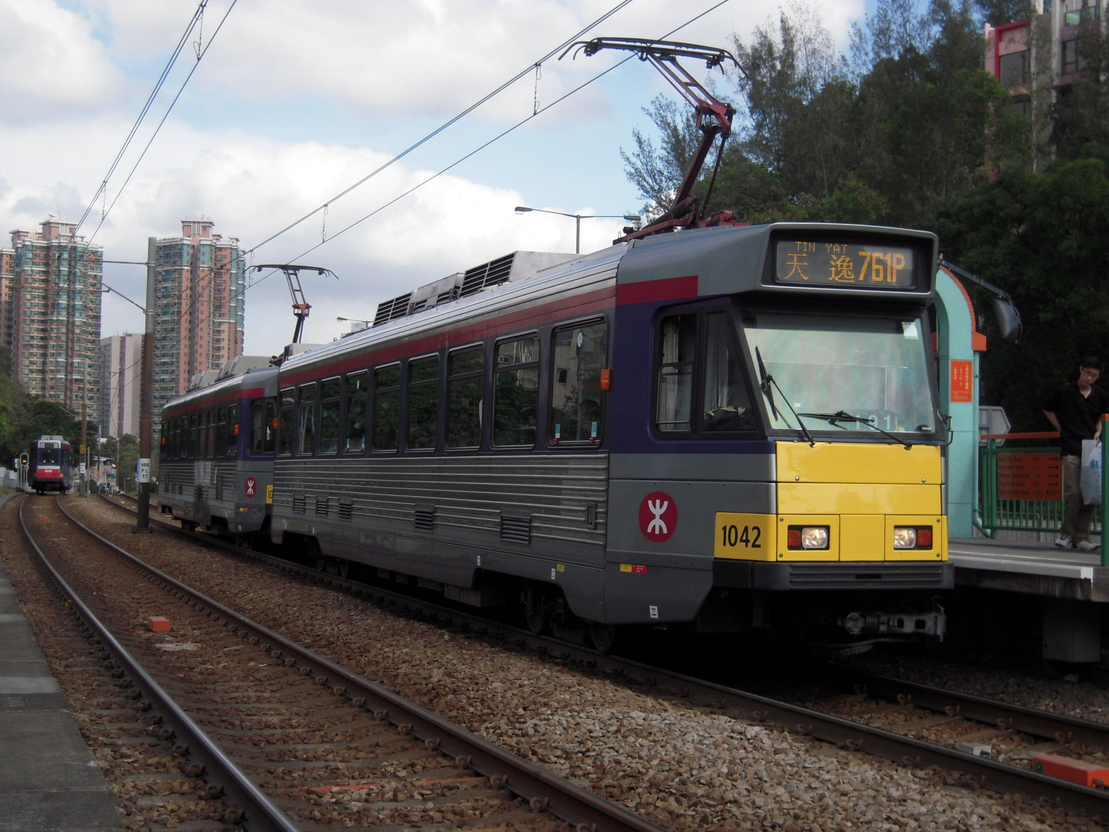 MTR LRT Train 1042 on route 761P at Ping Shan Stop